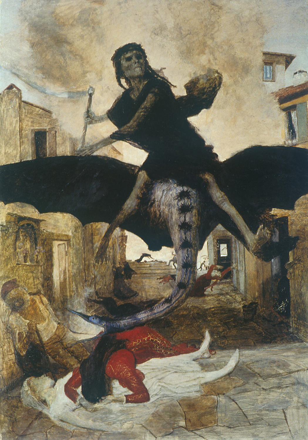 Arnold Böcklin: The Plague (1898) – Kunstmuseum Basel